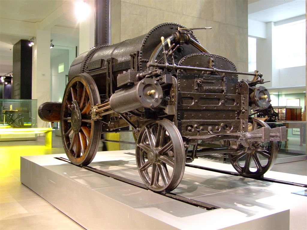 Here is the genuine Stephenson Rocket ( of Rainhill Trials fame) in its final form after some 15 years service during which its cylinders were lowered to the position you see them in now . Also it has gained a smokebox! At the Science Museum (London).